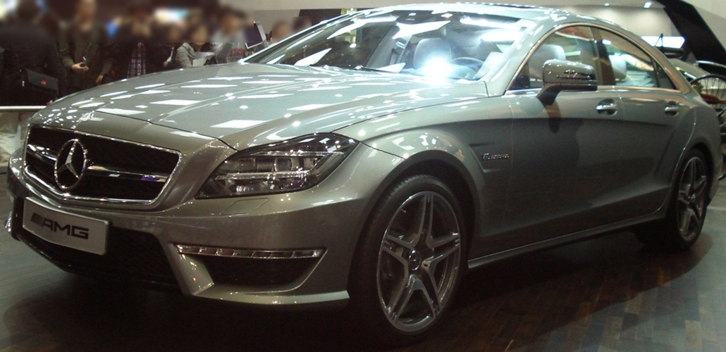 Mercedes-Benz CLS-Class